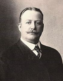 Frederic Remington